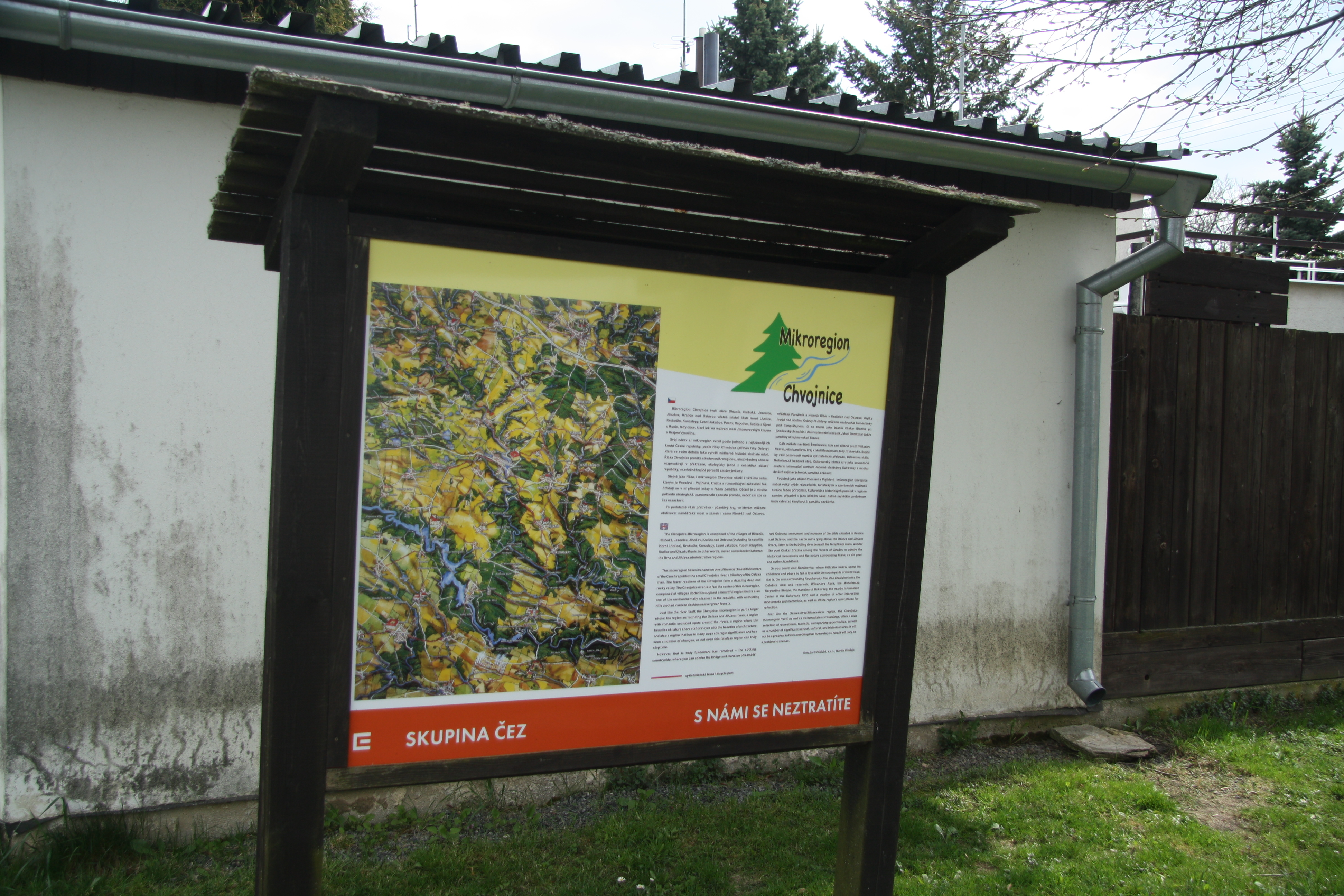 Sign of Microregion Chvojnice in Lesní Jakubov, Třebíč District.